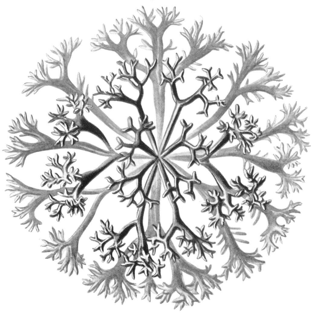 Drawing of Chondrus crispus